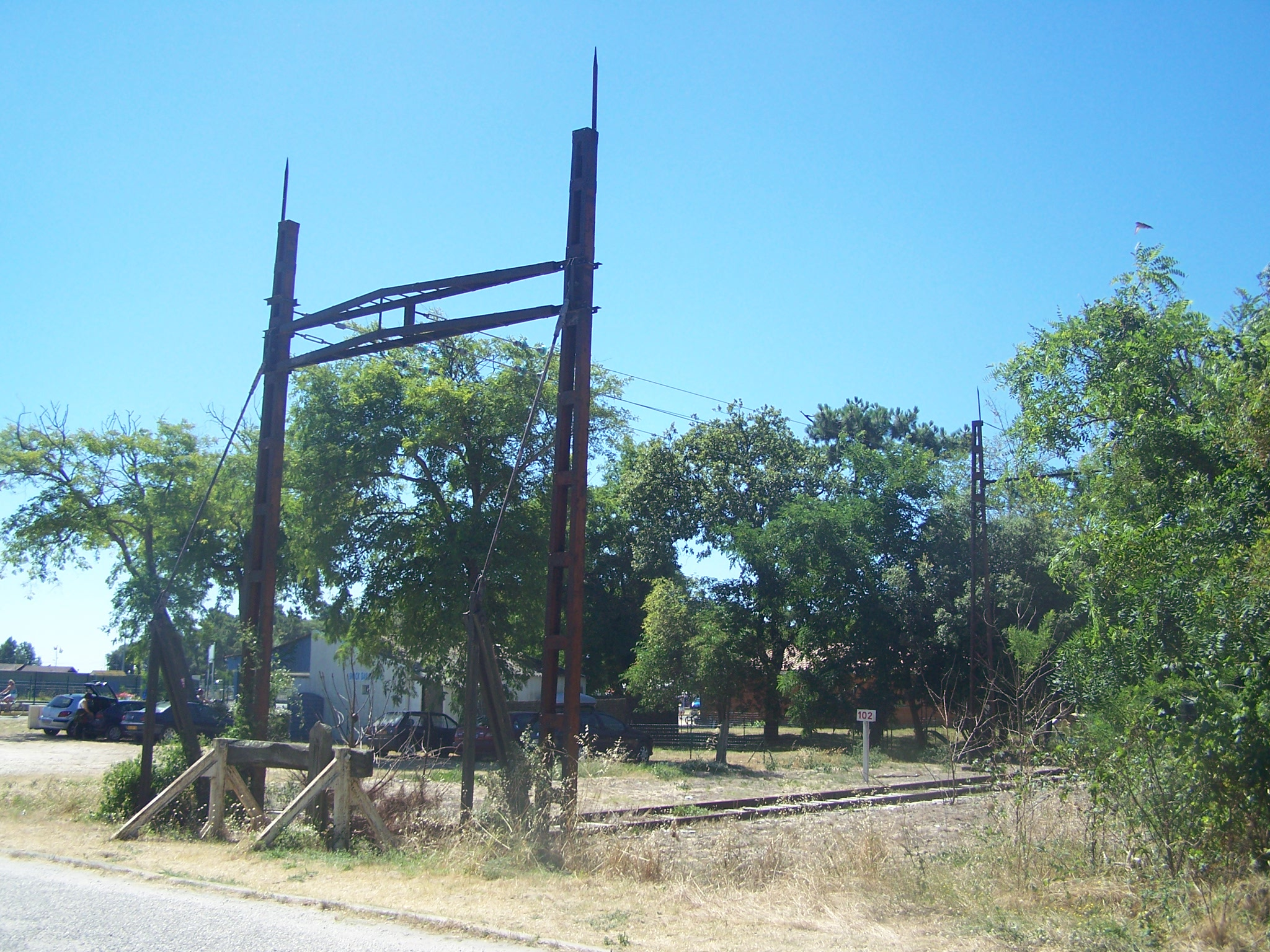 End of Médoc line in the French department of Gironde, when arriving at the Pointe the Grave cape.